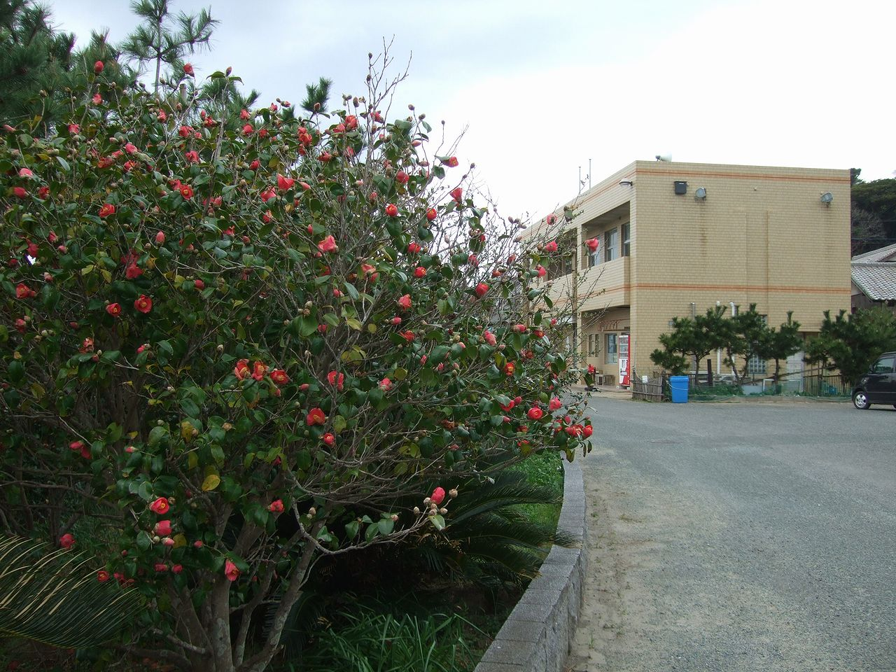 Camellia flowers and Jinoshima Fishing Village Center at Jinoshima, Munakata City, Fukuoka, Japan.